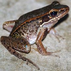 Hylarana leptoglossa, Samdrup Jongkhar, Bhutan. Photo by D.B. Gurung, published (as Sylvirana leptoglossa) in Wangyal, J. T. 2013. New records of reptiles and amphibians from Bhutan. Journal of Threatened Taxa 5:4774–4783.